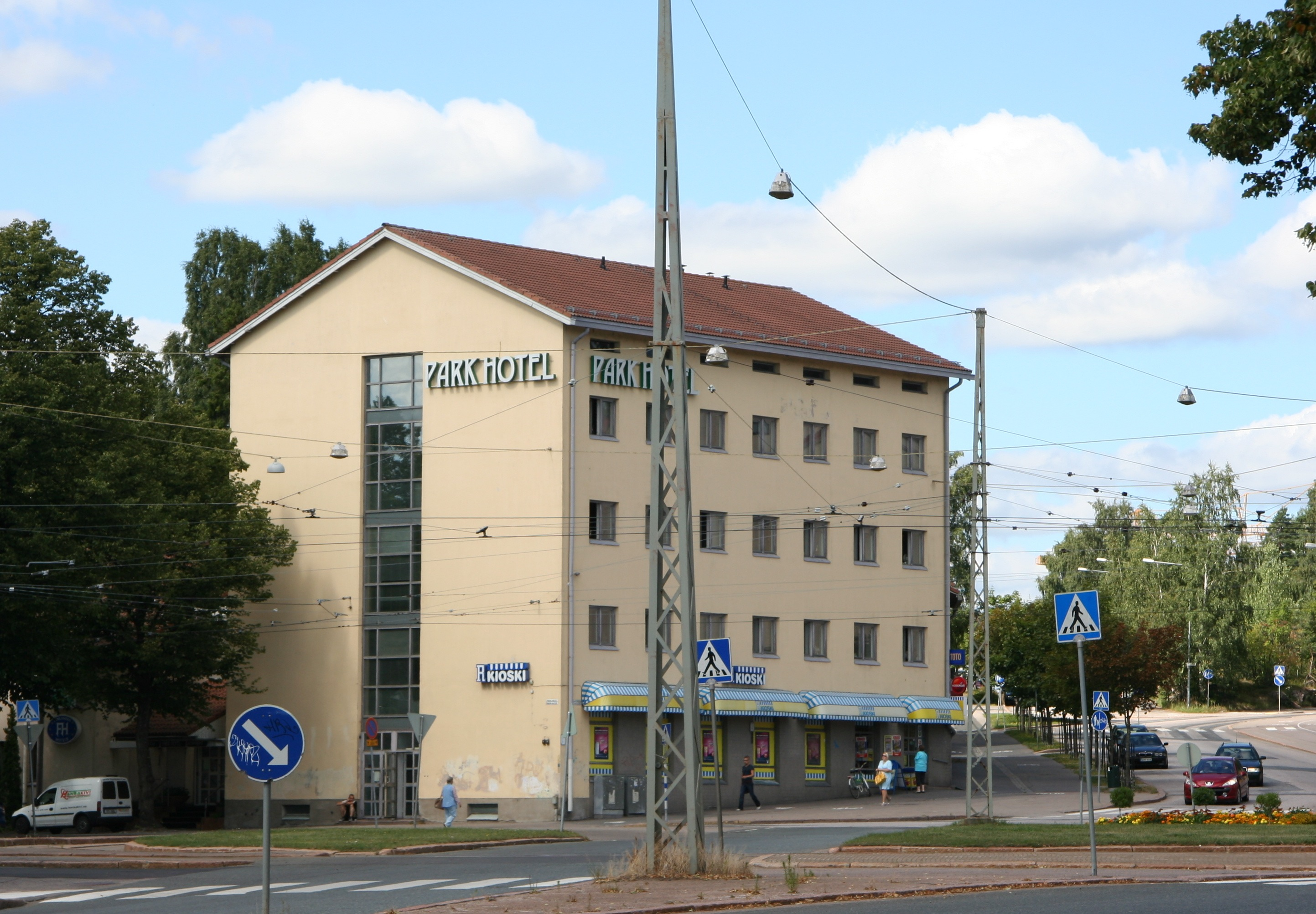 Hotel in Käpylä, Helsinki